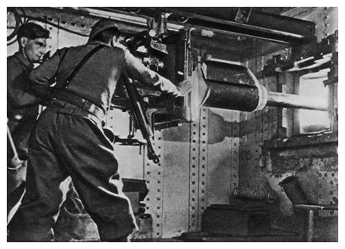 Historic photo of the block 1 at Schoenenbourg